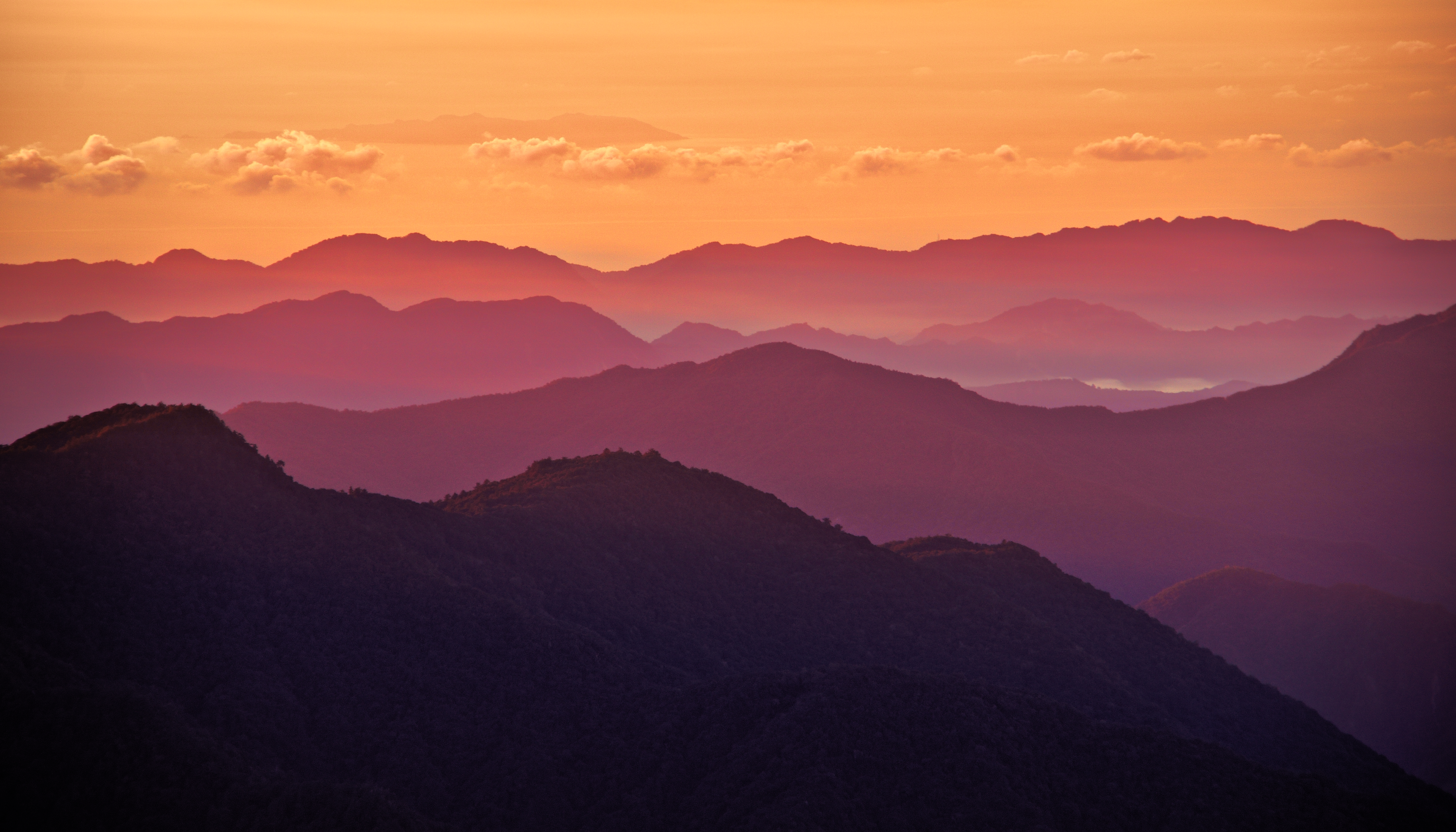 Sunrise while hiking to the Jiaming Lake in Yushan National Park